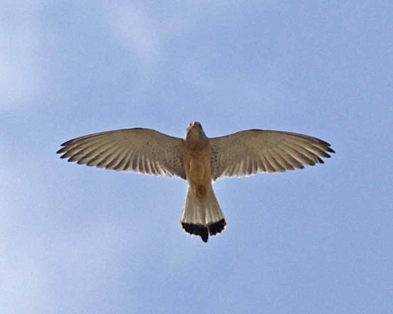 Lesser Kestrel (Falco naumanni) Taken in Altamura, Puglia, Italy flying male.jpg